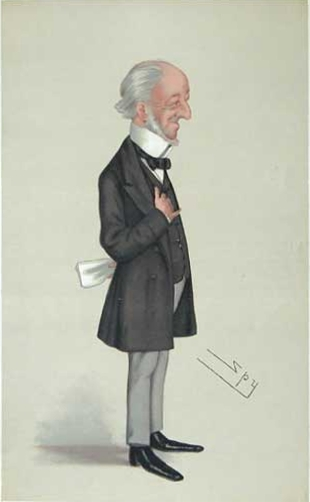 Caricature of Charles Seely. Caption read "Pigs".